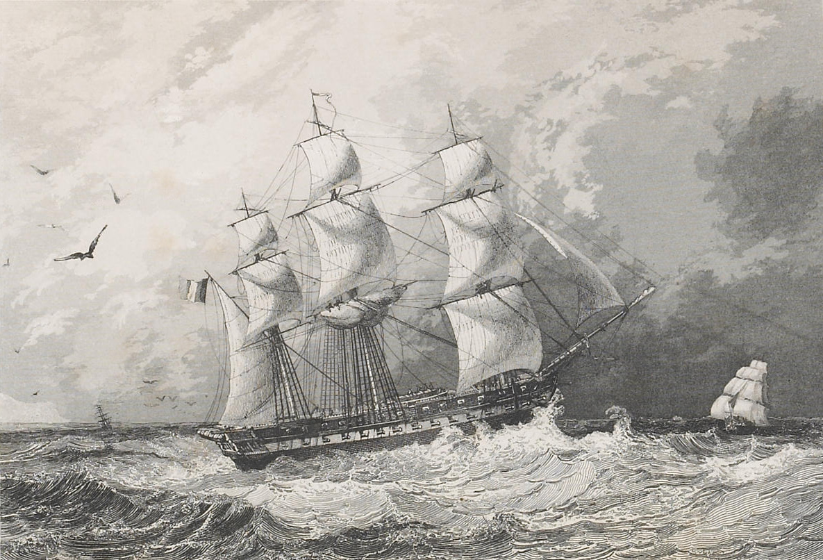 Frigate Artémise (1828)